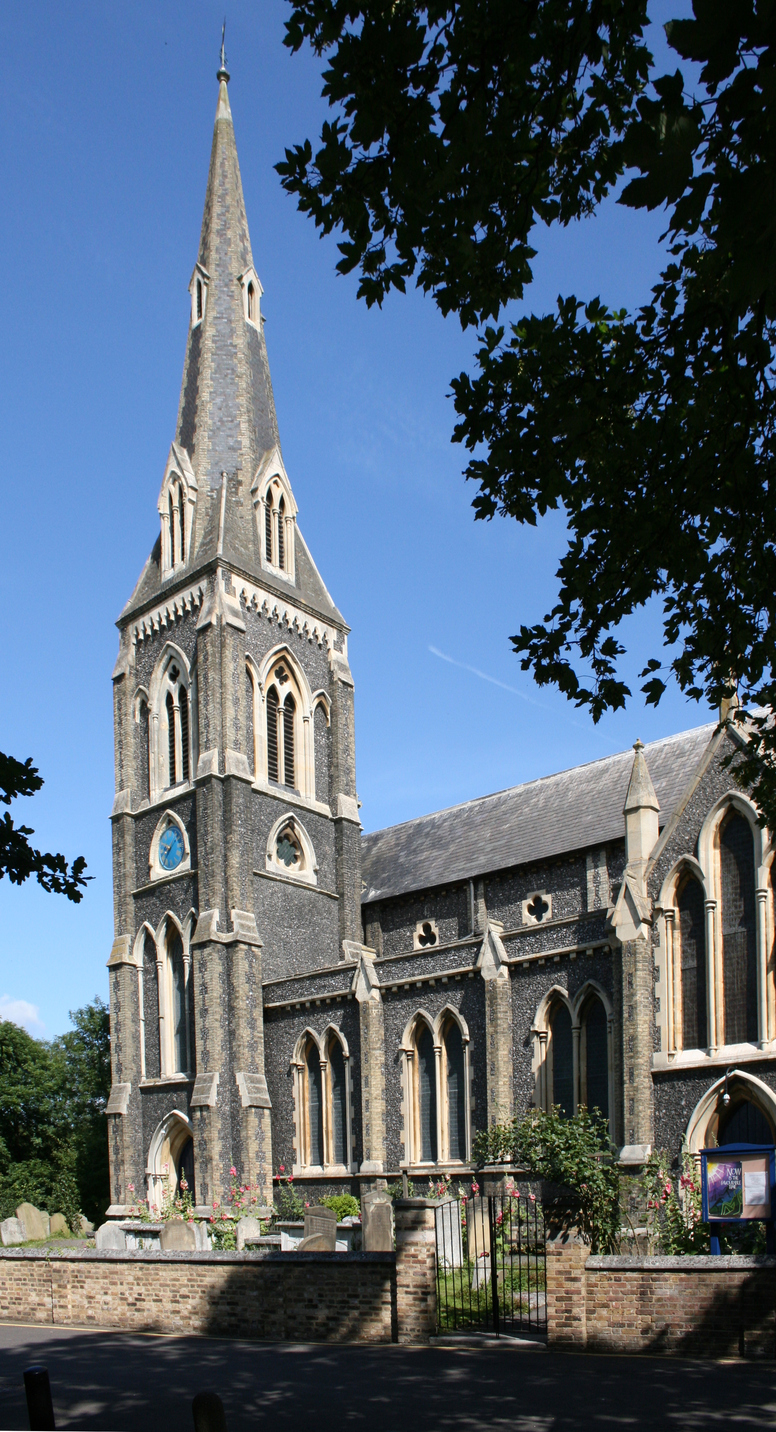 St Mary's Church on sunny day against blue sky. Hanwell W7 London.